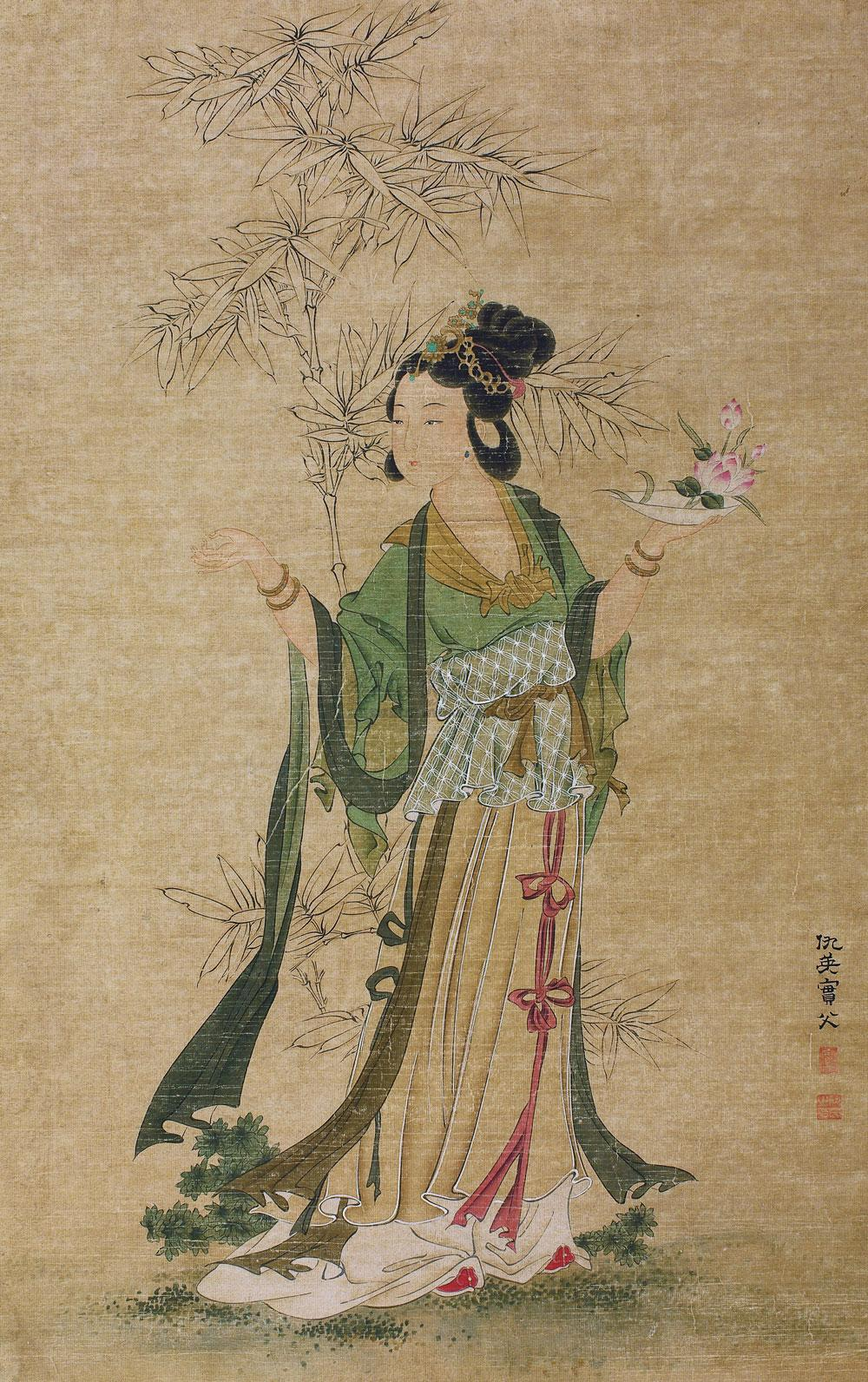 "Painting of a Young Lady" by Ch'iu Ying (1494? – 1552)